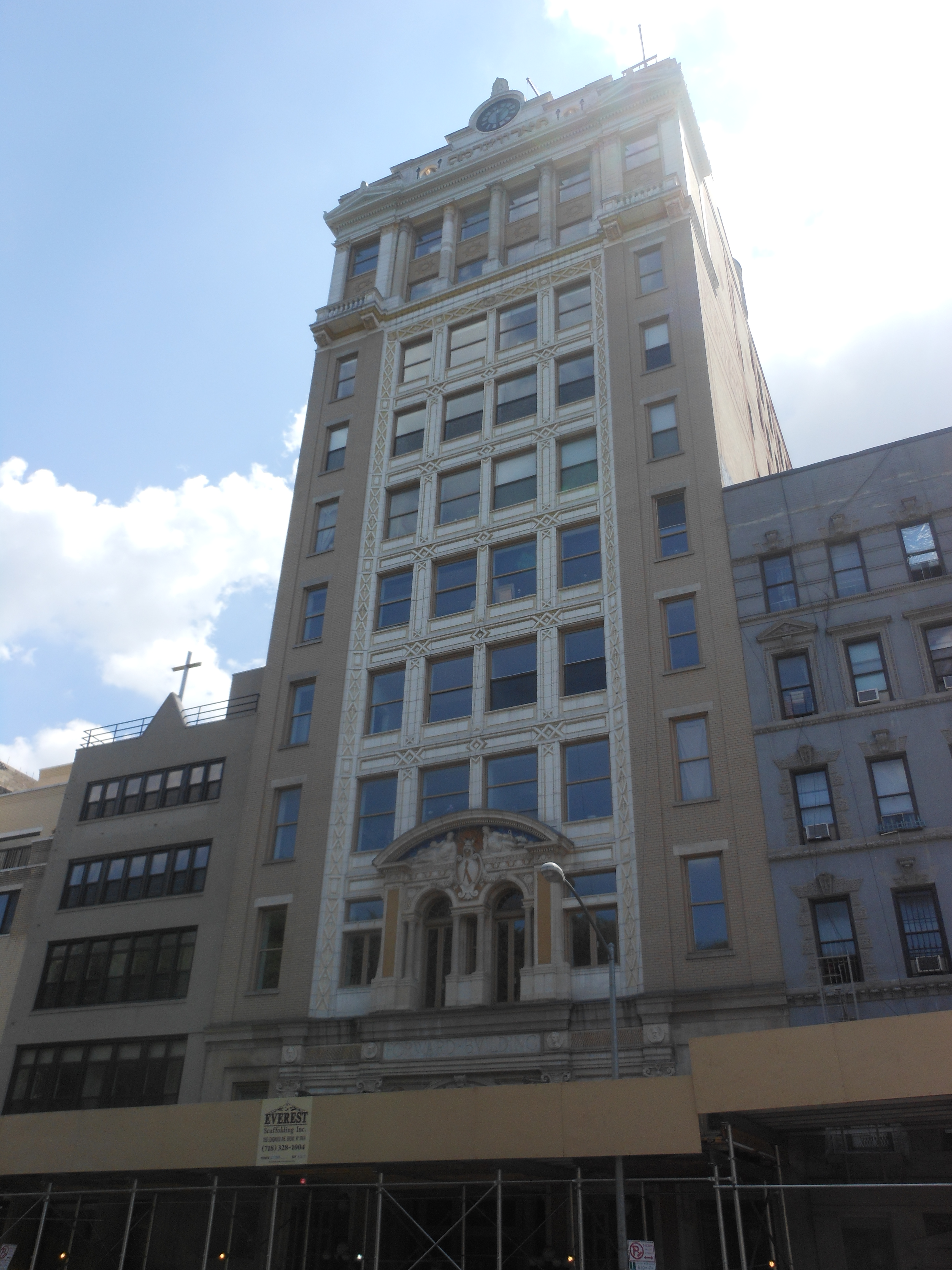 Forward Building in Lower East Side, New York City